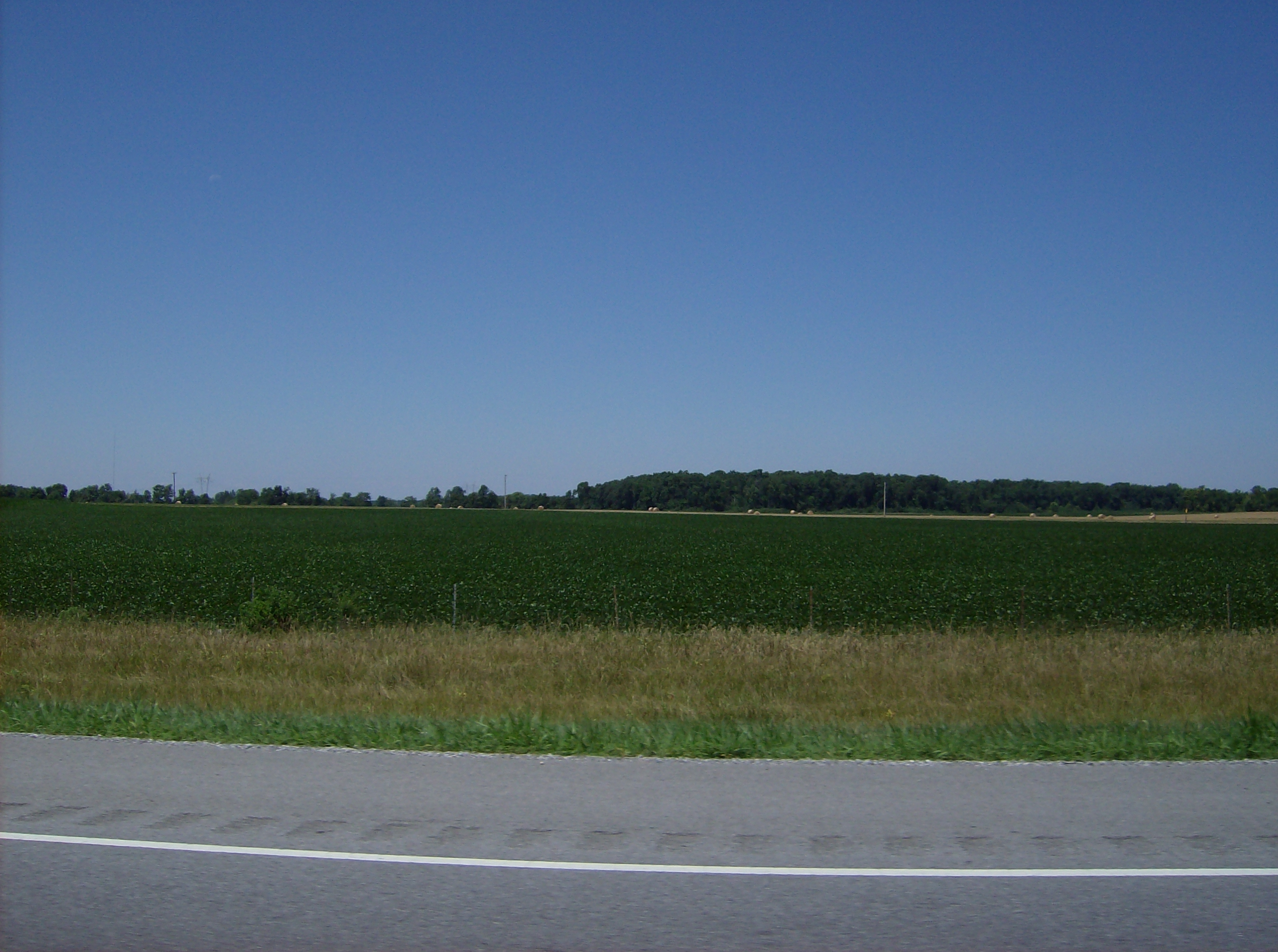 View of farmland in northeastern Duchouquet Township, Auglaize County, Ohio, United States. Picture taken looking westward from Interstate 75.